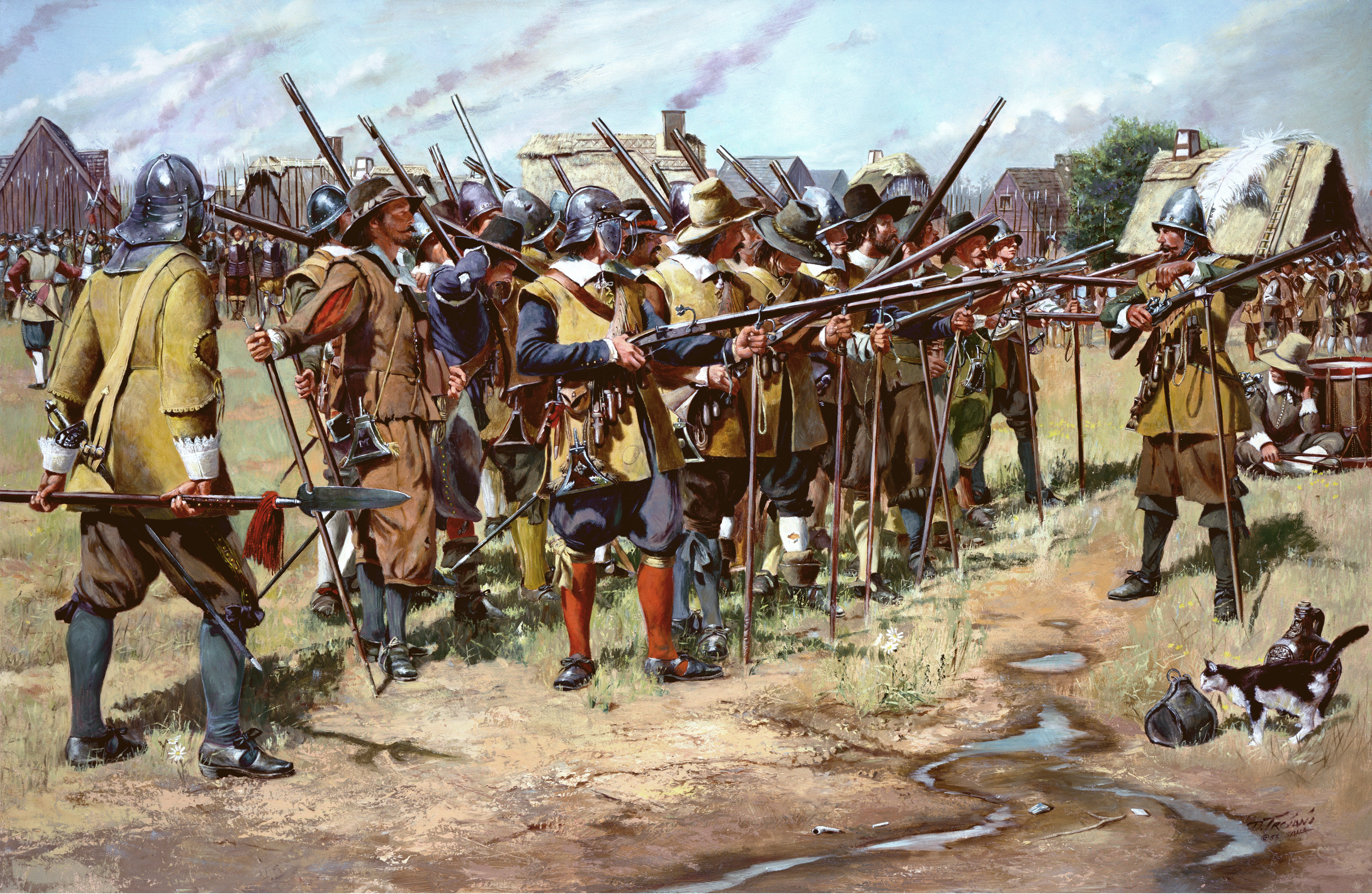 The First Muster by Don Troiani for the state of Massachusetts, 1637. First Muster, Spring 1637, Massachusetts Bay Colony. The birth of the United States National Guard.